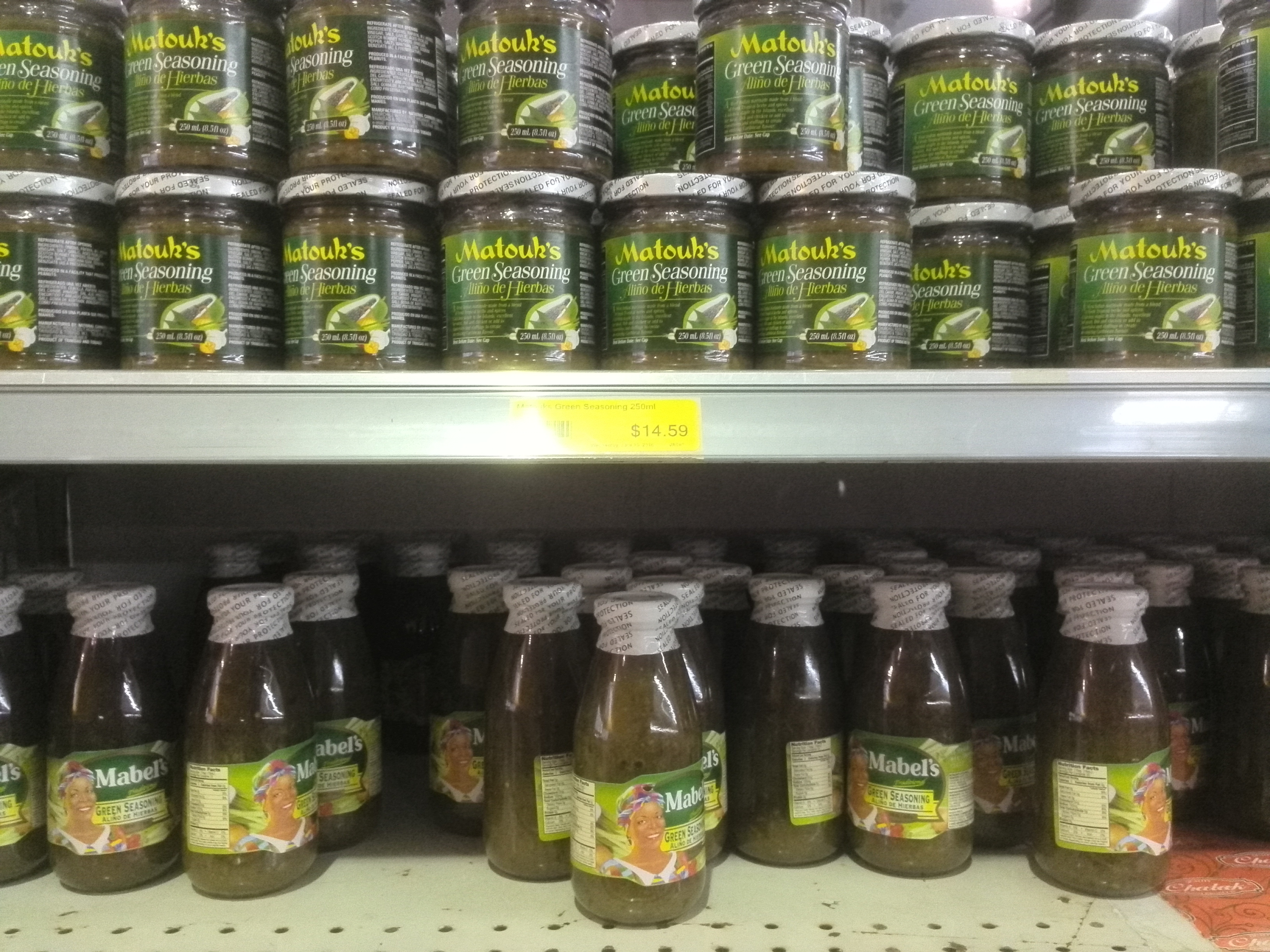 Different green seasoning brands in a supermarket in Chaguanas, Trinidad.